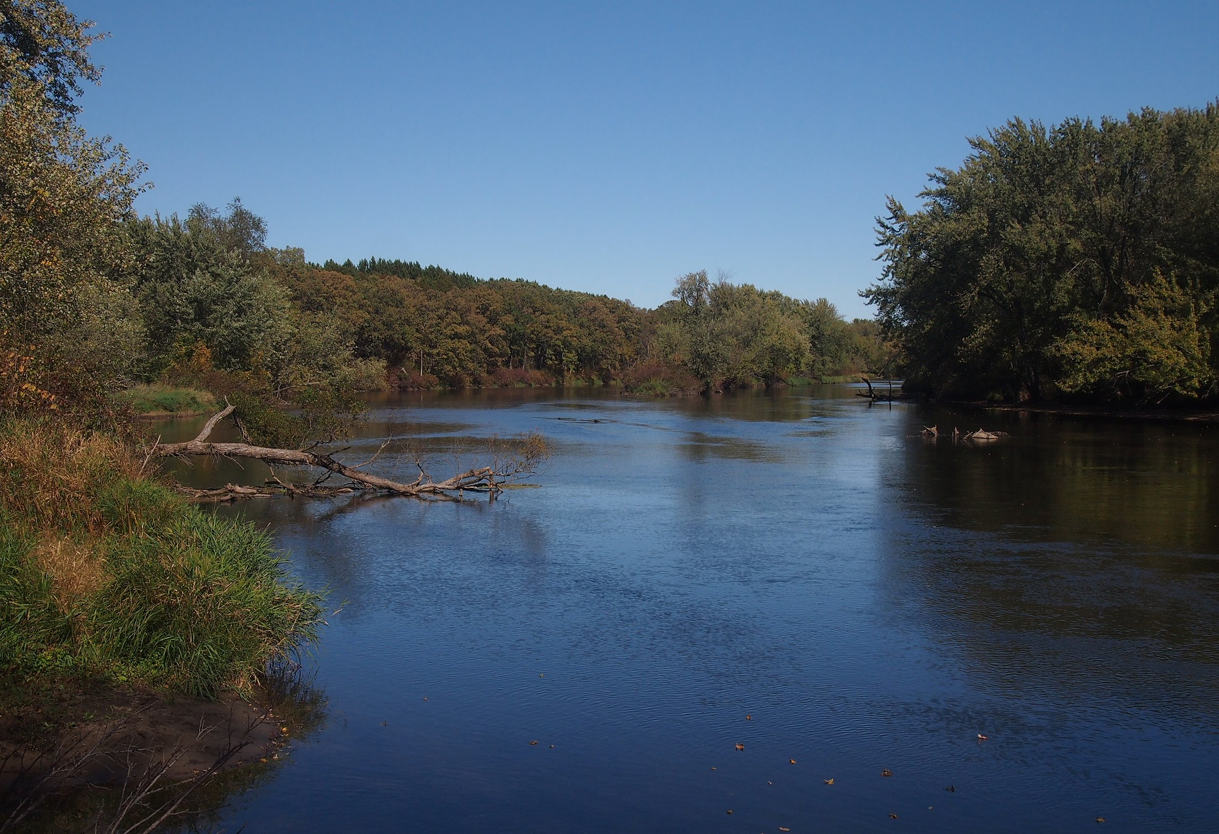 The Crow Wing River from Old Wadena County Park, Thomastown Township, Minnesota, USA. View looking north-northeast